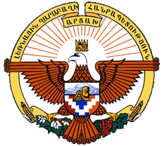 The Coat of Arms of Nagorno-Karabakh